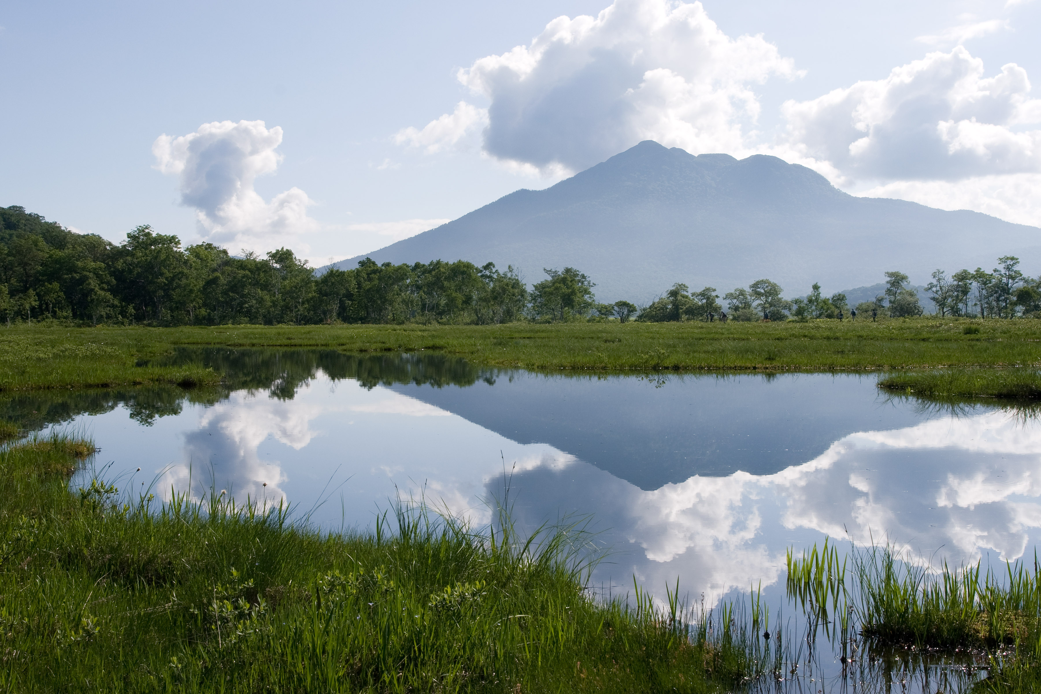 Mount Hiuchi and Ozegahara wetland, in Gunma and Fukushima Prefectures, Japan